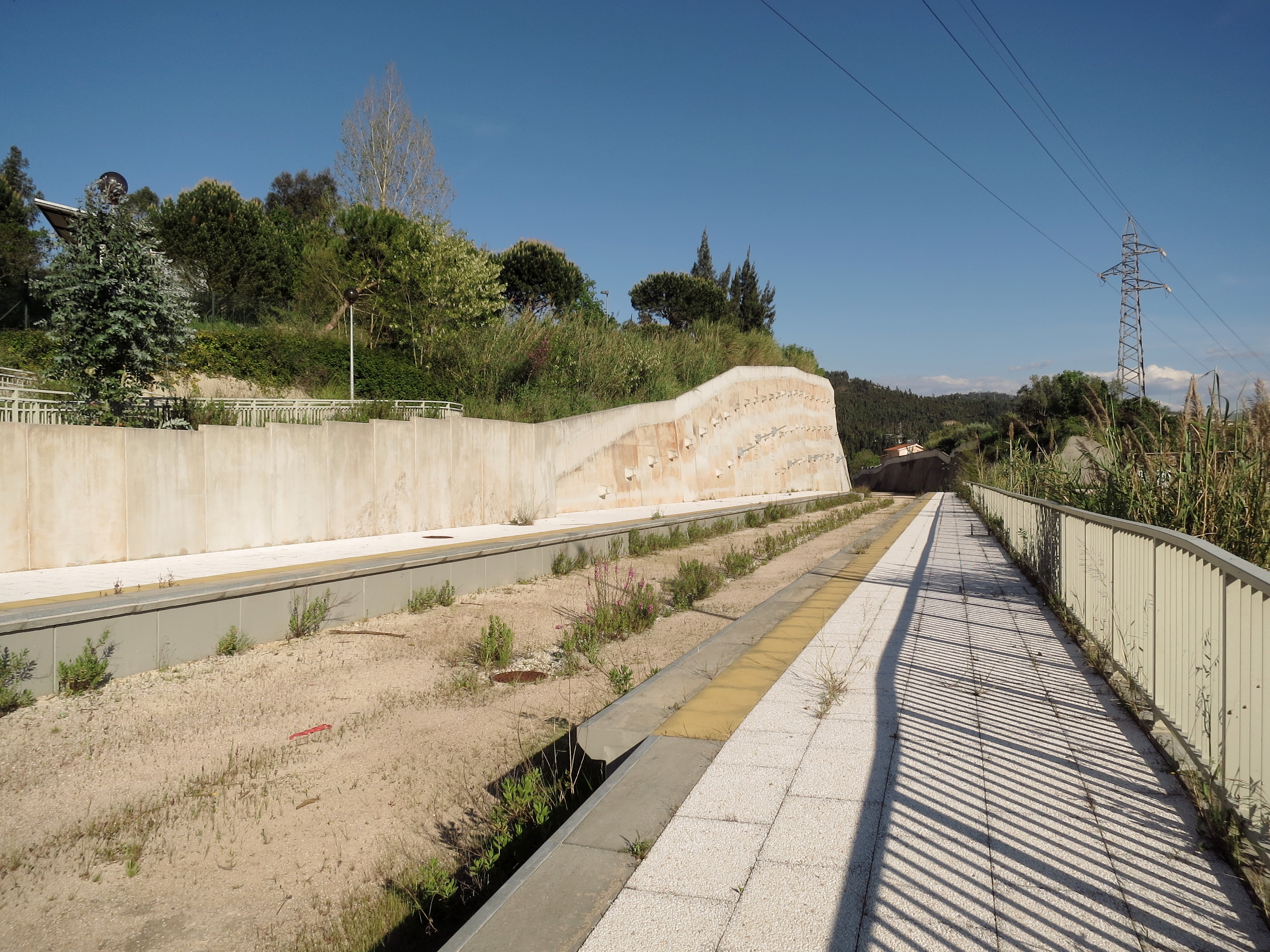 Carvalhosas halt of the desactivated Ramal de Lousa railway line; Coimbra, Portugal